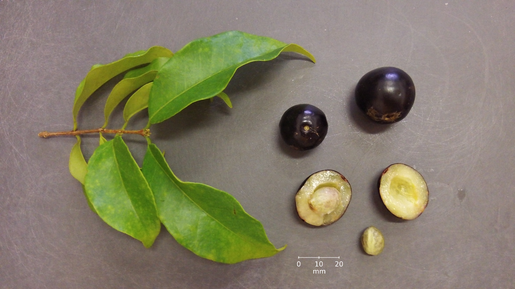 Eugenia candolleana (Rainforest plum, cambuí roxo, murtinha), leaves, fruit (whole and cut-away), and seed. Picture taken in the UNICAMP campus (Campinas, SP, Brazil) by J. Stolfi on 2012-02-27, with a Kodak Playsport; reduced to 1/3 size with GIMP.